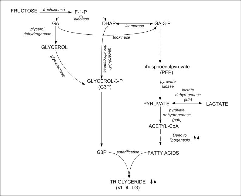 Fructose metabolism to triglyceride.